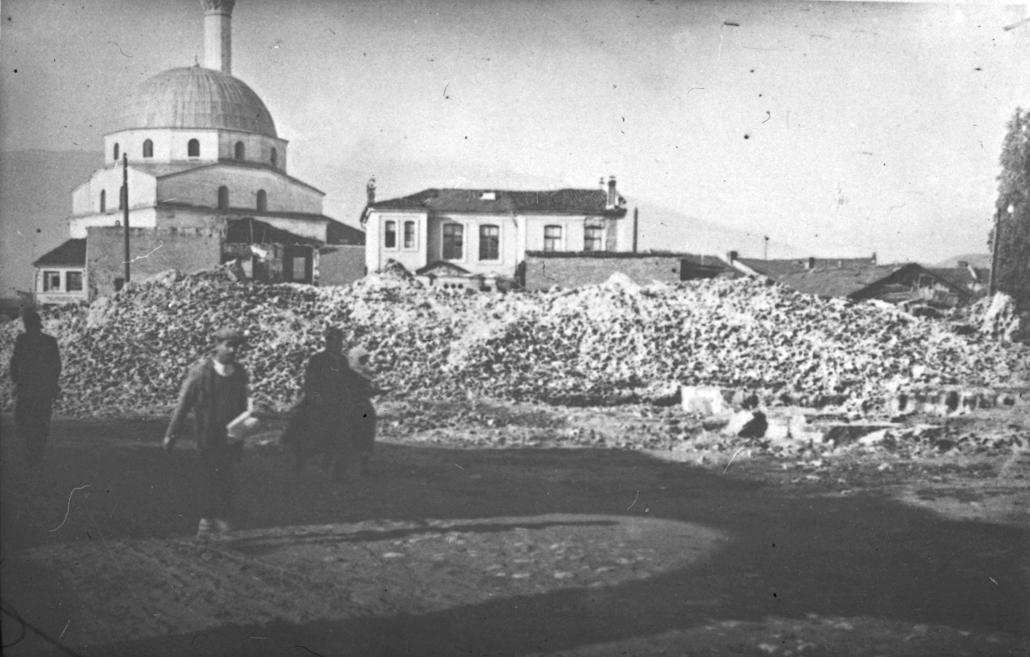 The destroyed Kal di Aragon synsgogue in Bitola